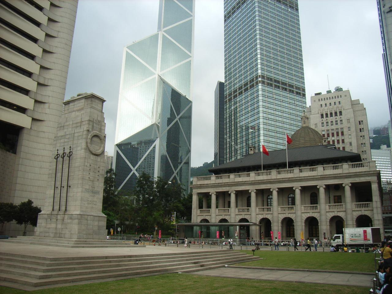 The Chater Road, Central, HK PC652107